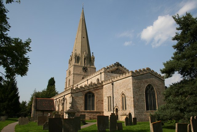 St.Mary's church, Edwinstowe. Local tradition asserts that Robin Hood and Maid Marian were married here - if they were, the grand 12th century tower would have already been built. The church looks Perpendicular from the outside, but there are Norman and Decorated arcades inside. St.Mary's is well kept and usually open - well worth a visit.